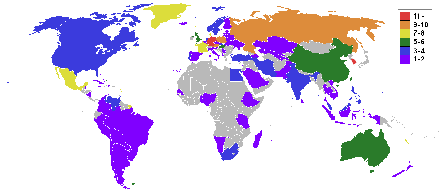 UNESCO's Memory of the World Programme (graphing somewhat meaningless numbers)